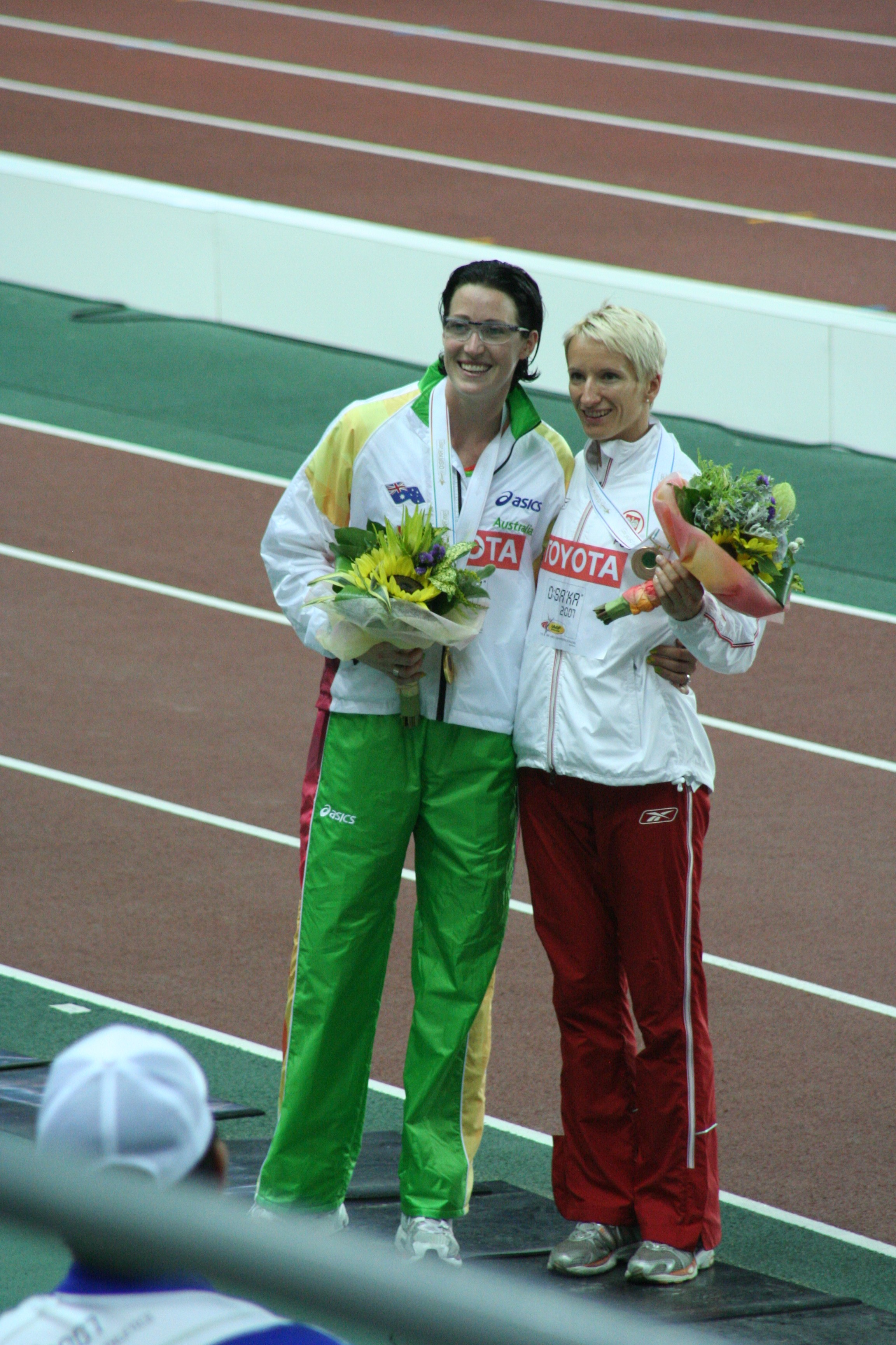 World Athletics Championships 2007 in Osaka - Medaillists of the women*s 400 metres hurdles: Jana Rawlinson (gold) and Anna Jesień (bronze) – not Yuliya Pechenkina – after the victory ceremony